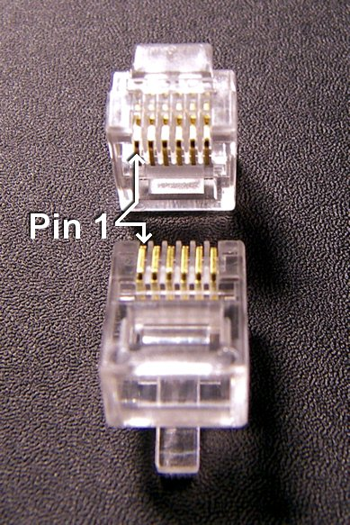 Two RJ25 connectors. The one in the foreground is seen from the cable end, while the one behind is stood vertically on its cable end, thus presenting the connector end for view. Note the six conductors which distinguish it from the RJ11 (2C) and RJ14 (4C.)